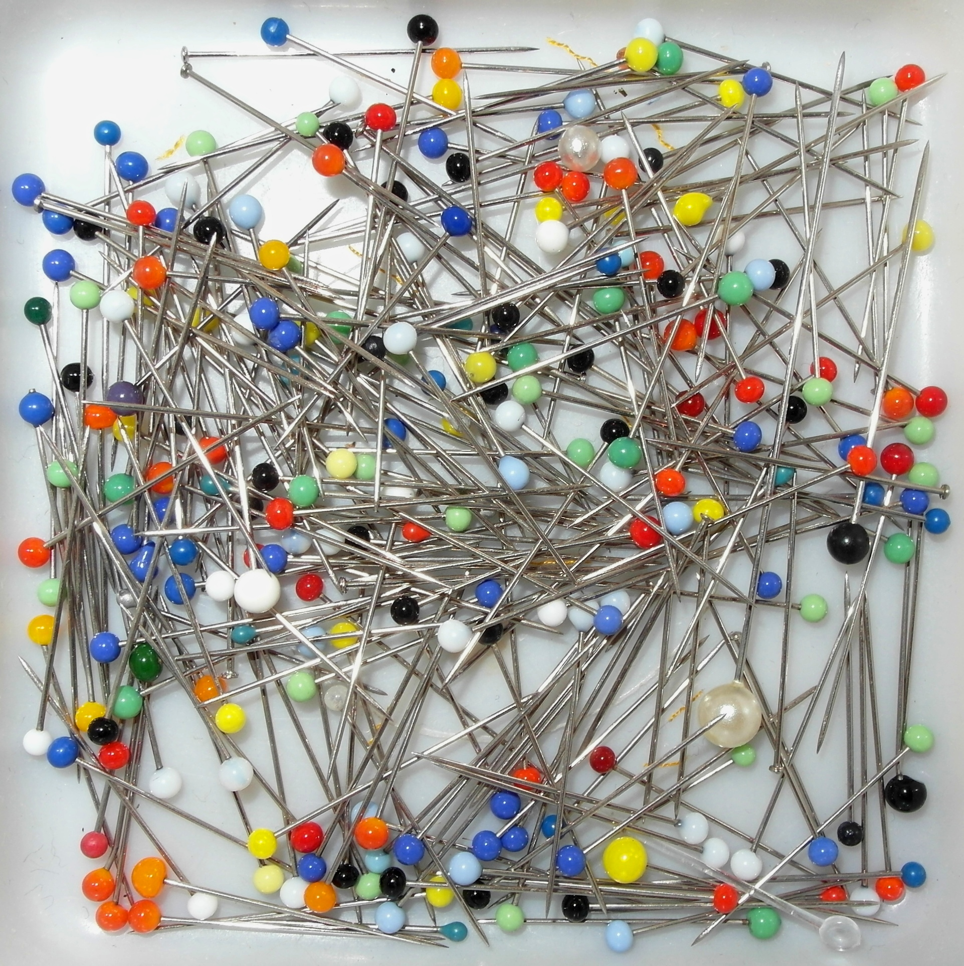 Dress pins